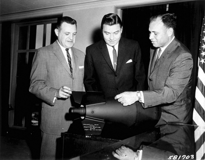 U.S. officials examine a M-388 Davy Crockett nuclear weapon. It used one of the smallest nuclear warheads ever developed by the United States.